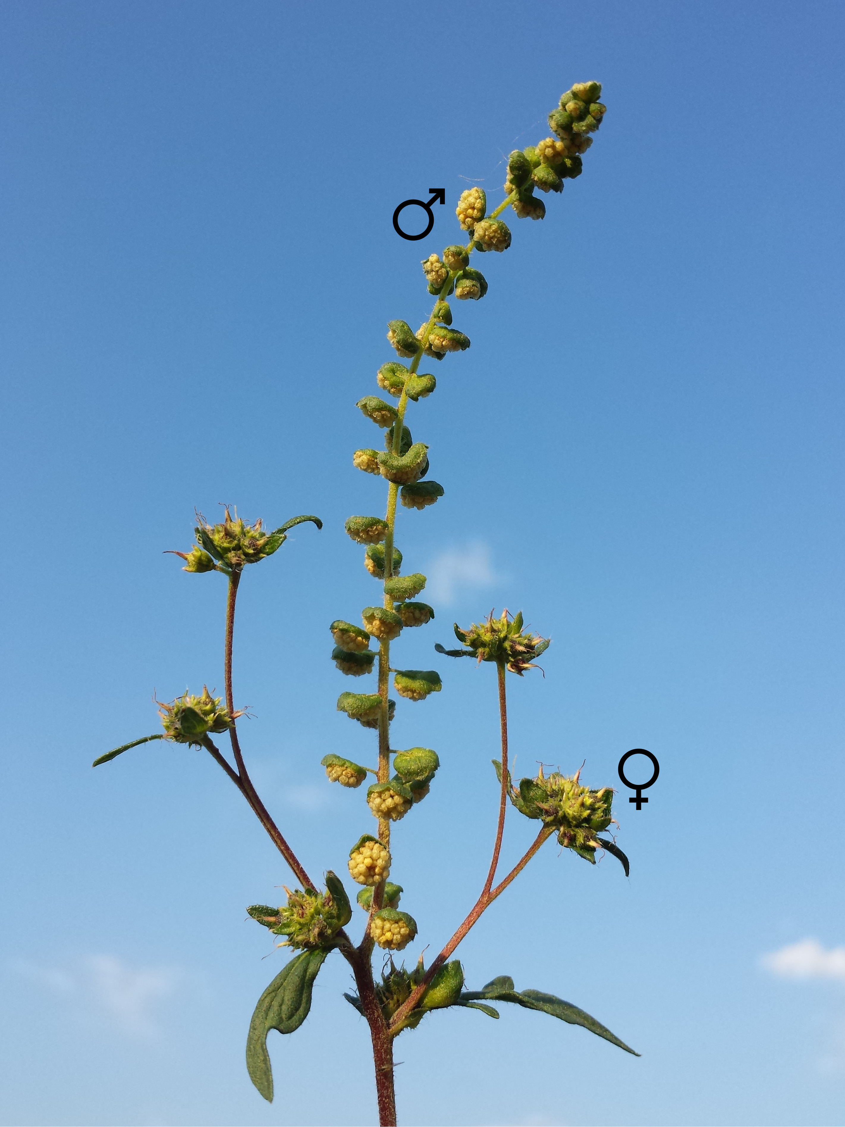 Inflorescence At the top flower heads with only male flowers, below part inflorecences with flower heads with only one female flower Taxonym: Ambrosia artemisiifolia ss Fischer et al. EfÖLS 2008 ISBN 978-3-85474-187-9 Location: Floridsdorf rail station, Vienna-Floridsdorf - ca. 160 m a.s.l. Habitat: rail ruderal area